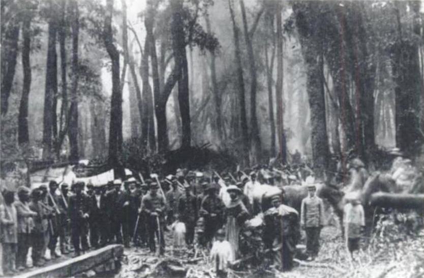 Tropas del Ejército de Chile comandadas por Cornelio Saavedra durante la Ocupación de la Araucanía (1860-1883)